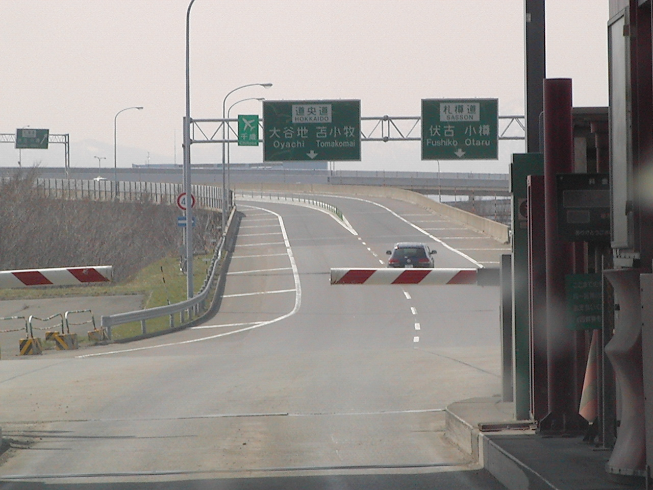 Sapporo Junction and Sapporo Toll Gate on the Hokkaido Expressway, Japan